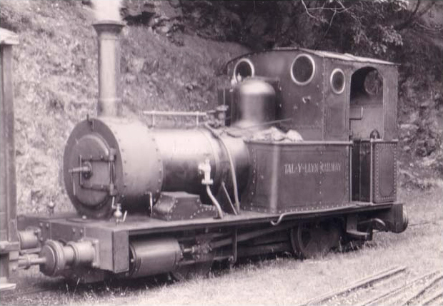 Tal-Y-Llyn Steam Railway 2'3" gauge locomotive "Dolgoch" at Abergwynolwn 1951.